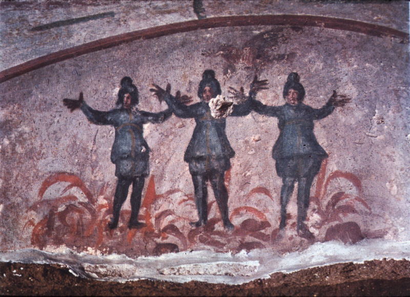 The symbolic story of tribulation and redemption is represented in this early Christian painting of the biblical story of "The Three Hebrews in the Fiery Furnace". From the Catacombs of Priscilla, Rome, Italy. Late 3rd century / Early 4th century. The fiery furnace is a story from the Book of Daniel in the Tanakh / Old Testament. The story is well-known among Jews and Christians. (see also Fiery furnace)